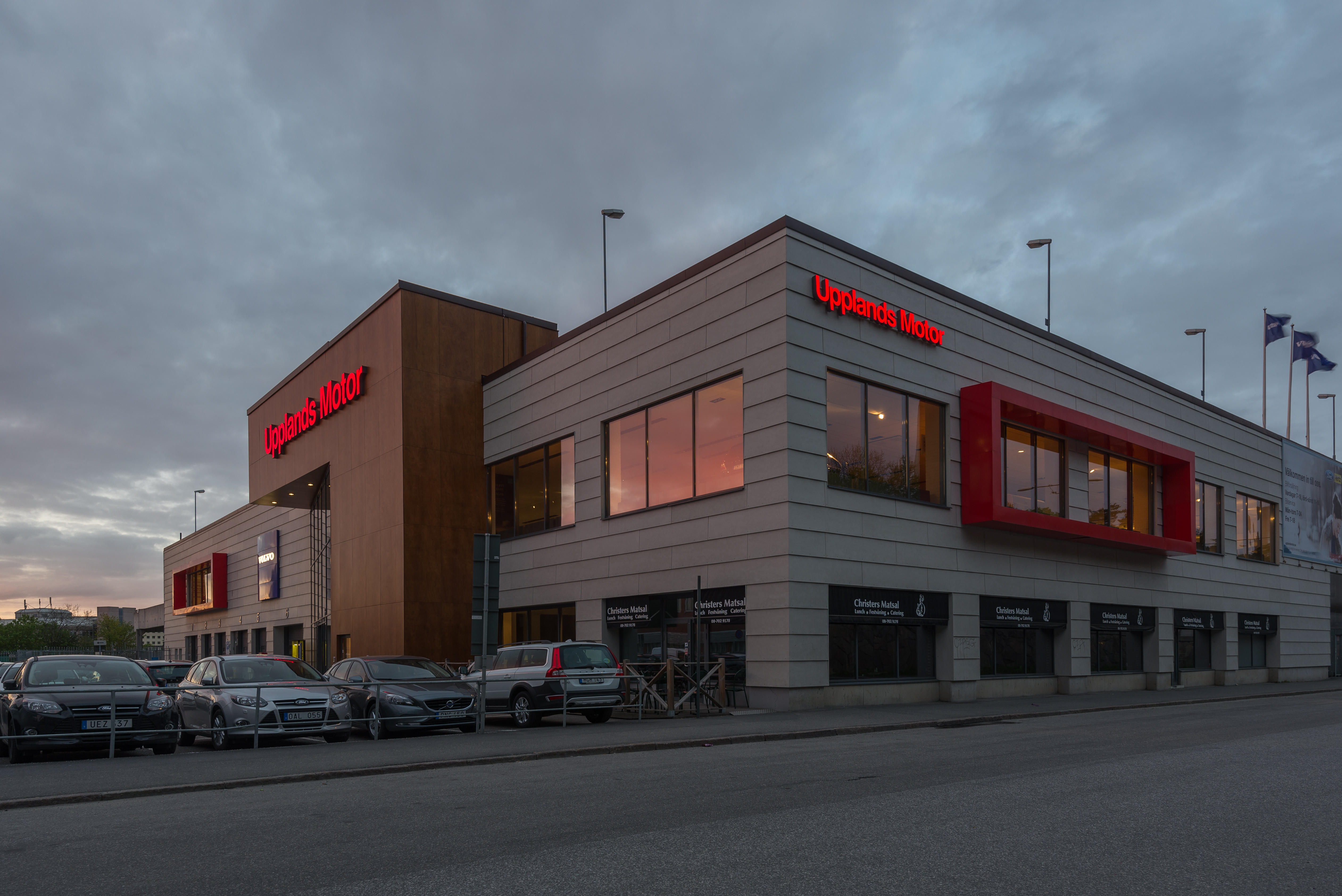 Upplands motor, a car dealership in Södra Hammarbyhamnen, Stockholm.